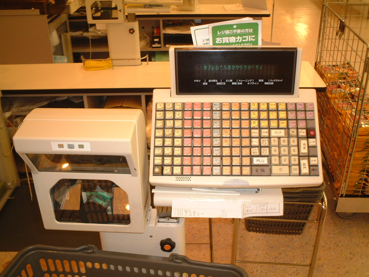 Point of sale